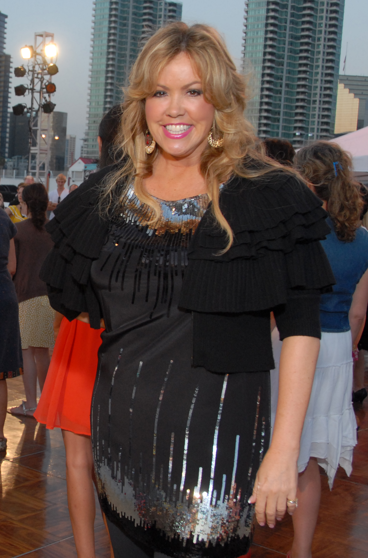 Mary Murphy at the Port of San Diego's hosted event, the Big Bay Ballroom Swingtime on Broadway. The event was held at the Port Pavilion on Broadway Pier.